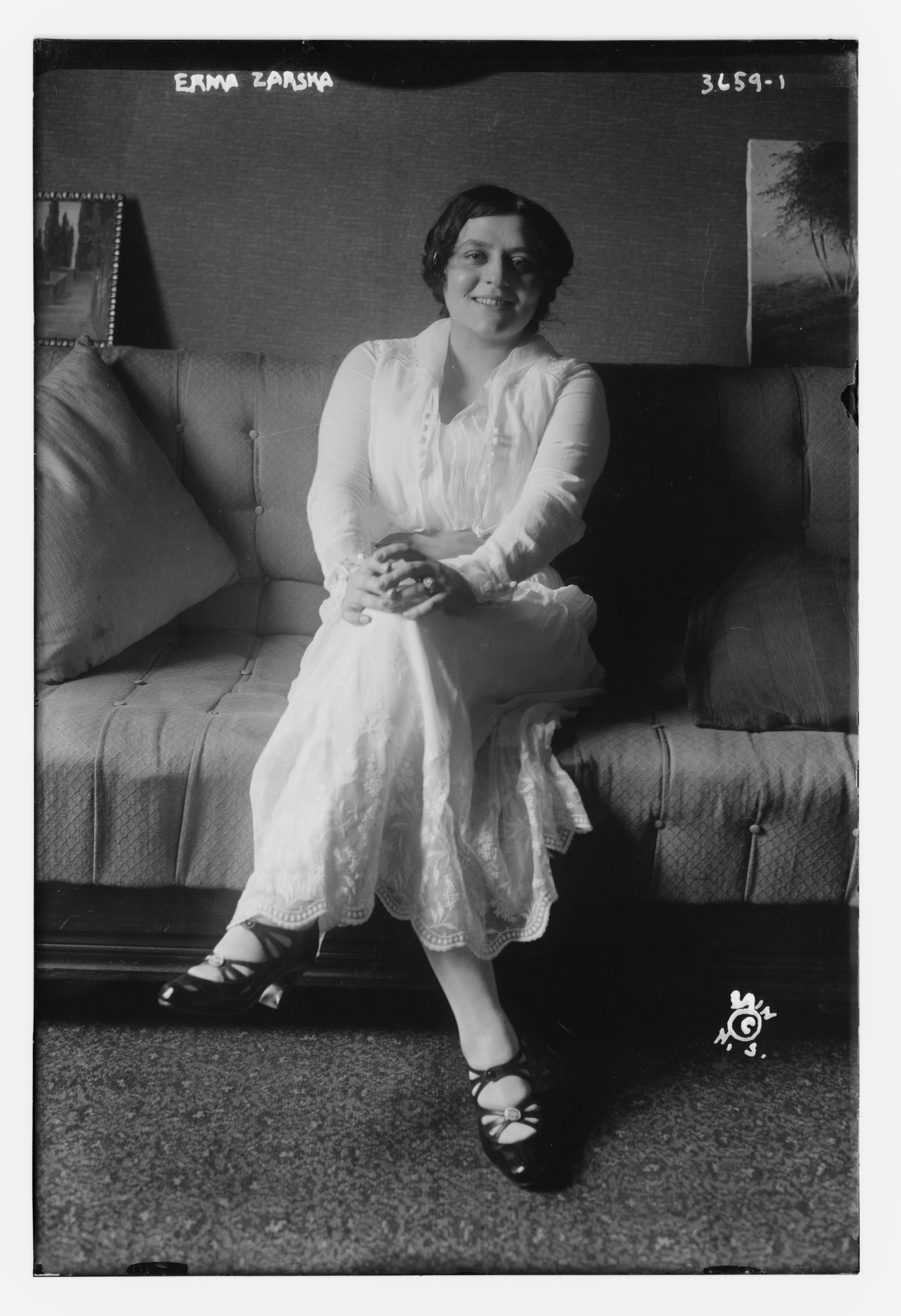 Title: Erma Zarska Abstract/medium: 1 negative : glass ; 5 x 7 in. or smaller.